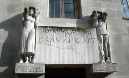 Sculptures above the entrance of the Royal Academy of Dramatic Arts, Gower Street, London